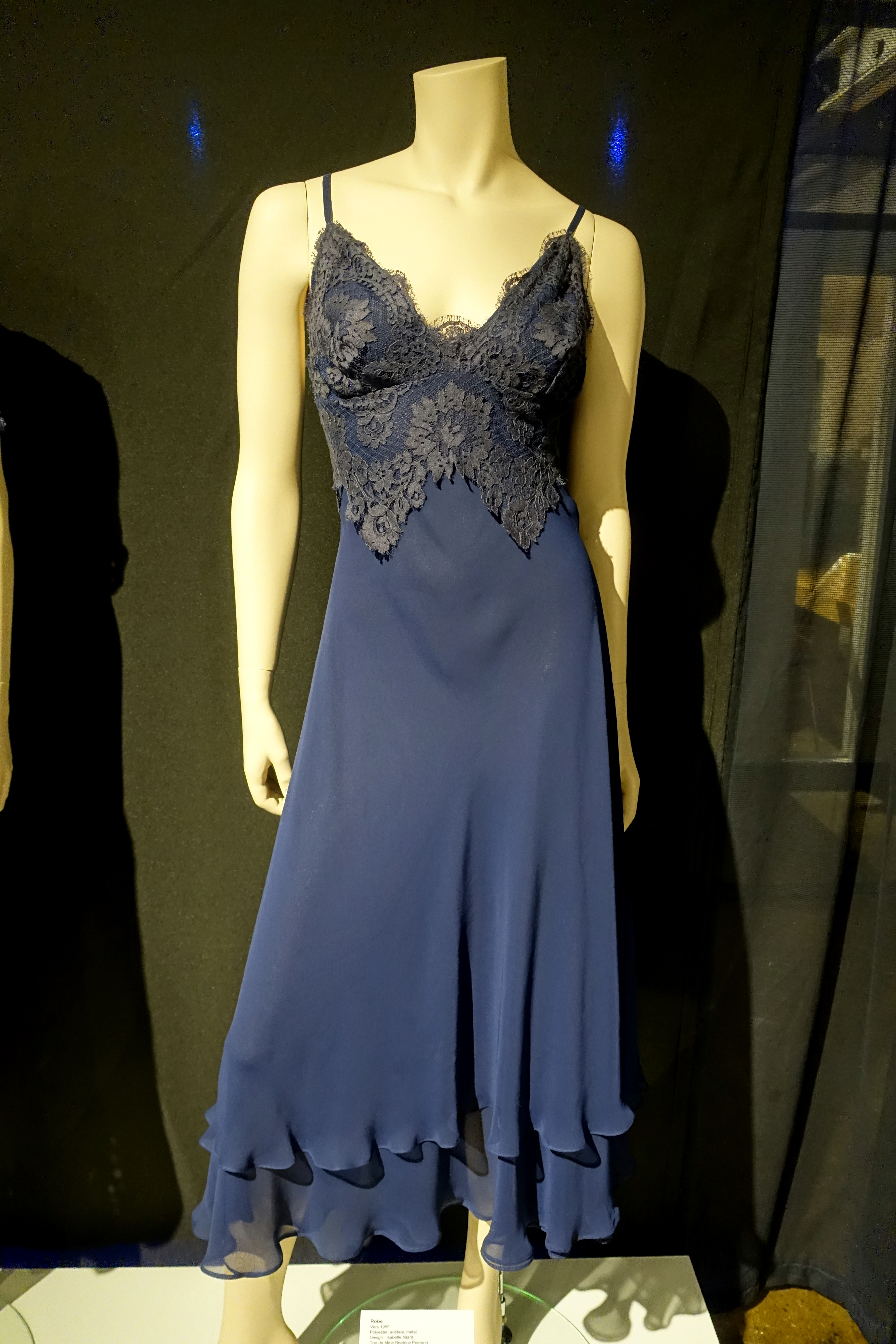 Clothing exhibited in the Musée de la mode - Montreal, Quebec, Canada. Please note that fashion designs are NOT protected by United States copyright law; see Fashion design copyright, and hence this image is available in the public domain.